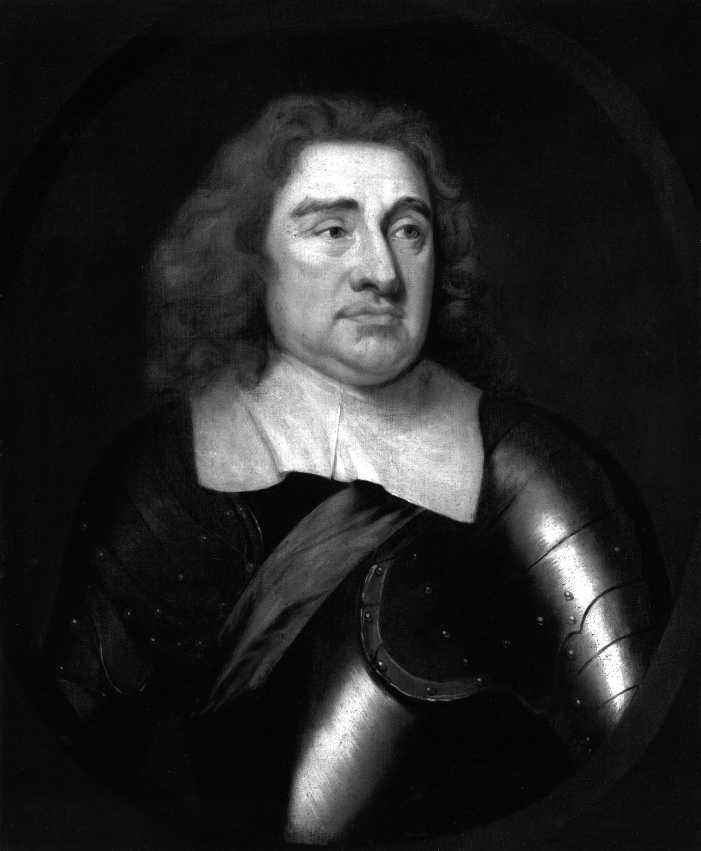 George Monck, 1st Duke of Albemarle, by Samuel Cooper (died 1672). All images in this batch have been confirmed as author died before 1939 according to the official death date listed by the NPG.